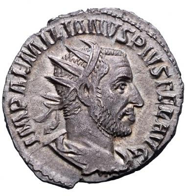 Aemilianus